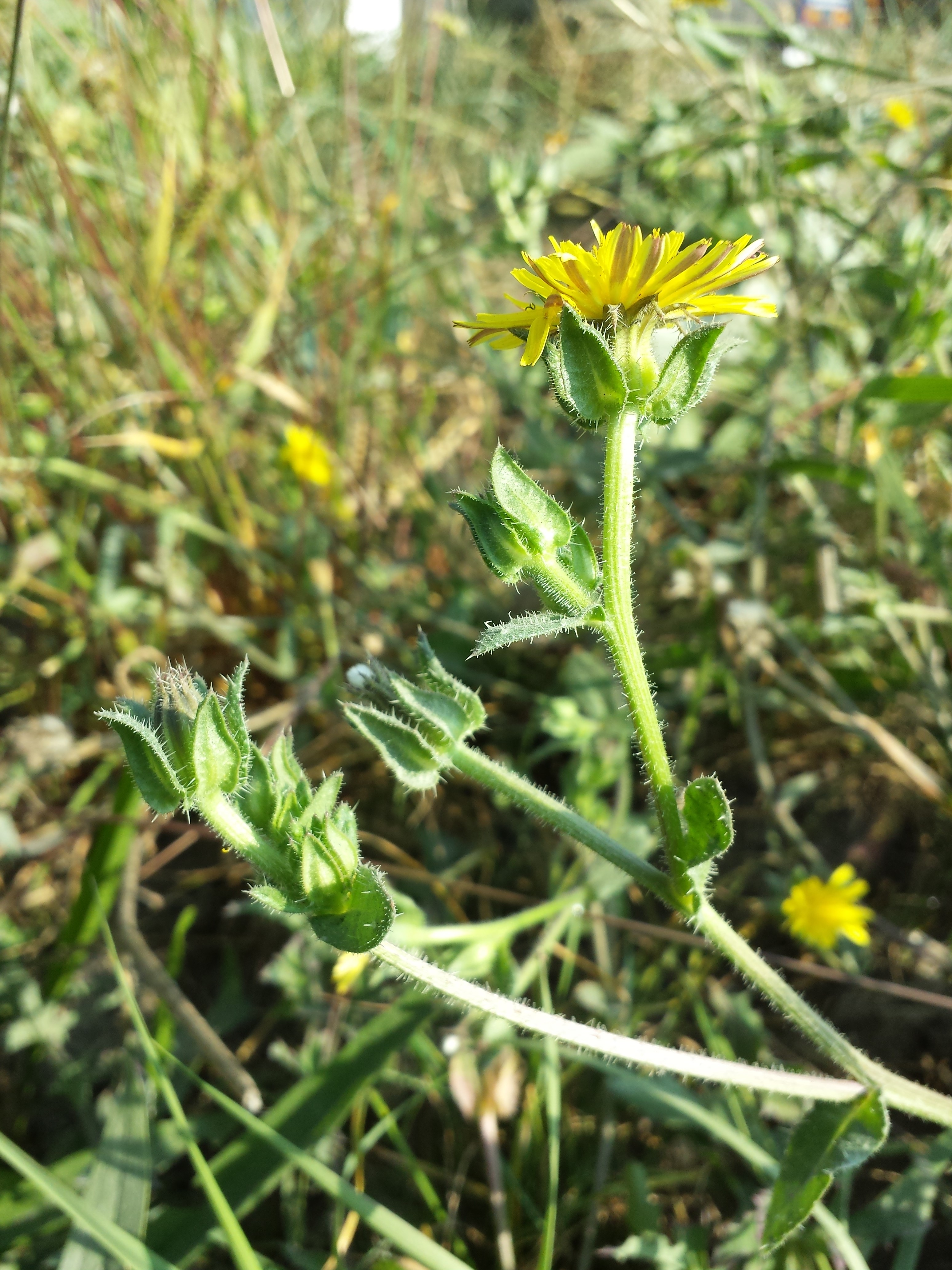 Habitus Taxonym: Helminthotheca echioides ss Fischer et al. EfÖLS 2008 ISBN 978-3-85474-187-9 Location: Freudenauer Hafenstraße, Vienna-Leopoldstadt - ca. 150 m a.s.l. Habitat: dry, ruderal slope